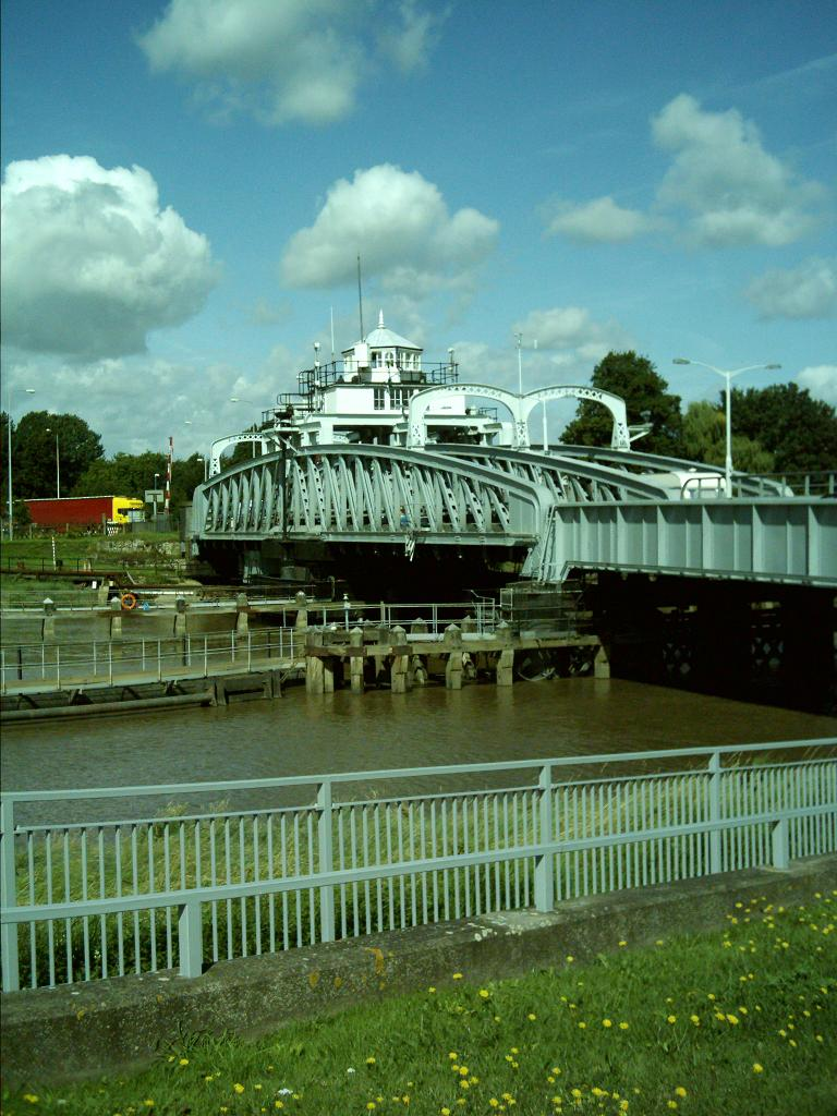 Crosskeys Bridge, Sutton Bridge, Lincolnshire. The swing bridge was built in 1897 to span the River Nene and was originally used for both road and rail traffic. After 1965, when the railway was closed, the bridge took on its present day function, carrying road traffic on both sides, between Lincolnshire and Norfolk on the busy A17 trunk road. Madlyn 21:47, 3 October 2006 (UTC) Lyn Ray Sutton Bridge